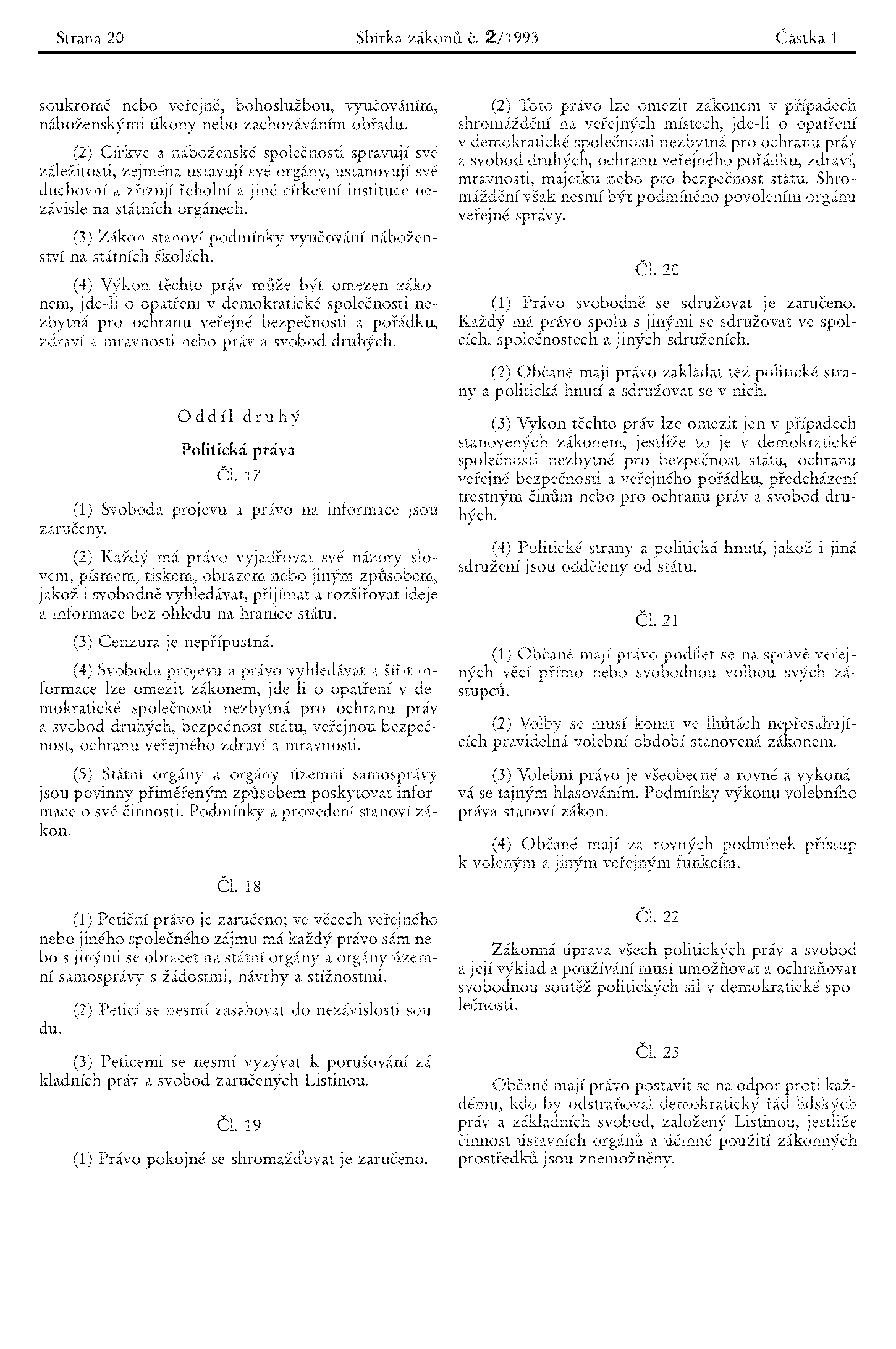 Czech Collection of Laws' official issue with the 1993 Constitution No. 1/1993 Coll. Česky: Stejnopis Sbírky zákonů s Ústavou České republiky (1/1993 Sb.) a Listinou základních práv a svobod (2/1993 Sb.)